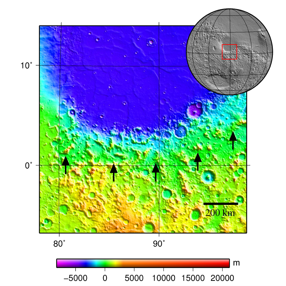 Libya Montes (Mars) topography